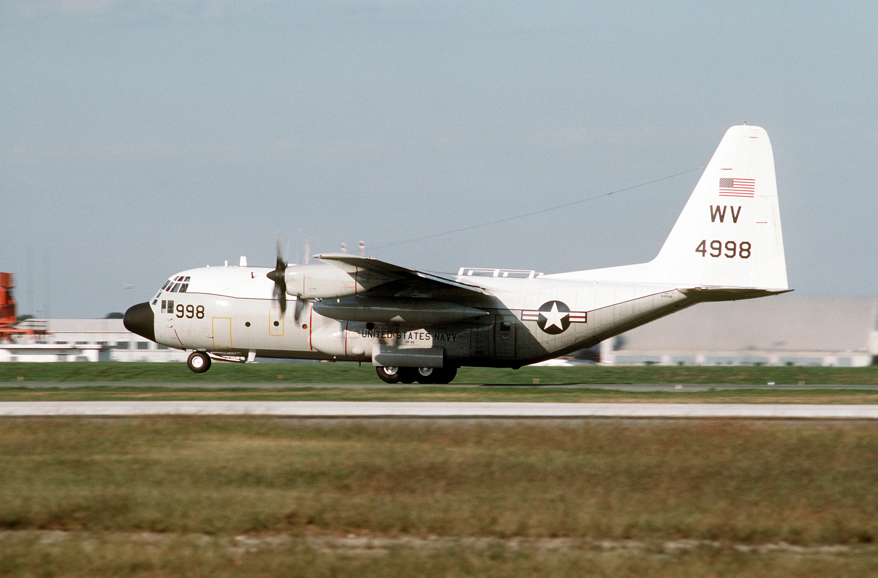 A U.S. Navy Reserve Lockheed C-130T Hercules (BuNo 164998) of Transport Squadron 48 (VR-48) takes off from the south runway at Naval Air Facility Washington D.C on a training flight of the then newly acquired transport.